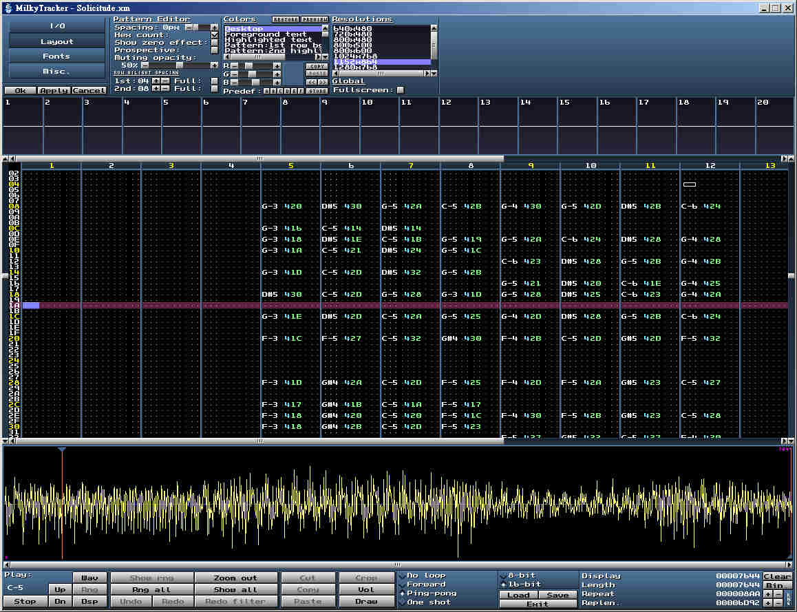 It tells how to expand screen to 1280x1024